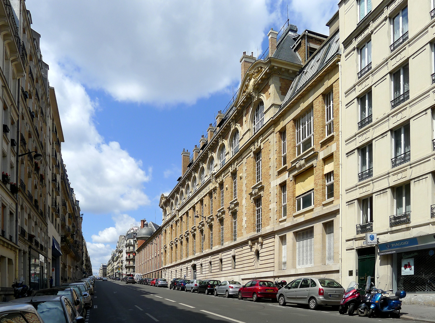 Claude-Bernard street - Paris